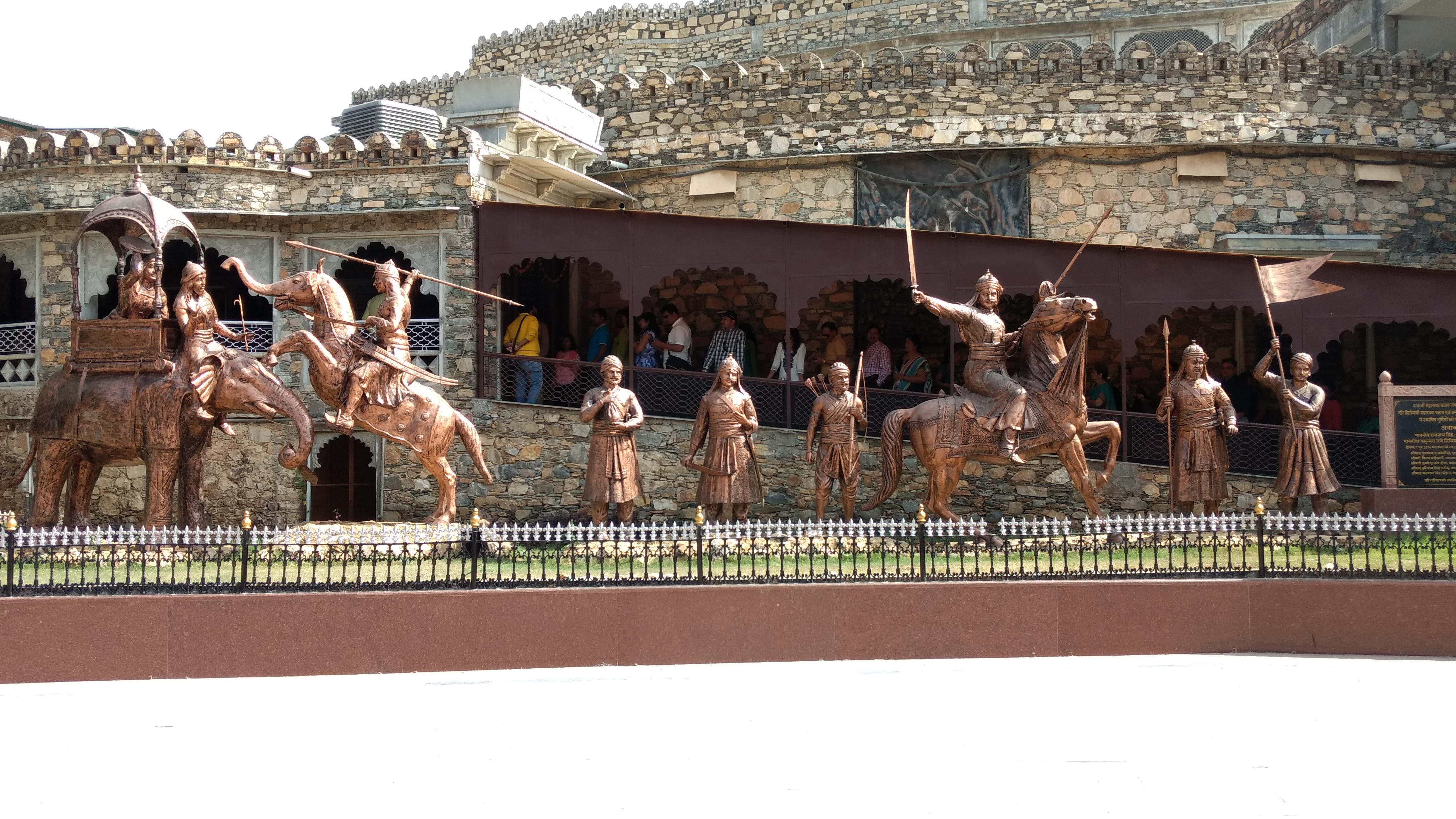 This private museum in Haldighati has audiovisuals explaining Maharana Pratap Singh's legend.